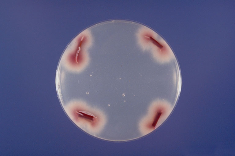 Fusarium root rot and wilt (Culture) Fusarium oxysporum E.F. Sm. & Swingle fungi in agar plate Image location: United States